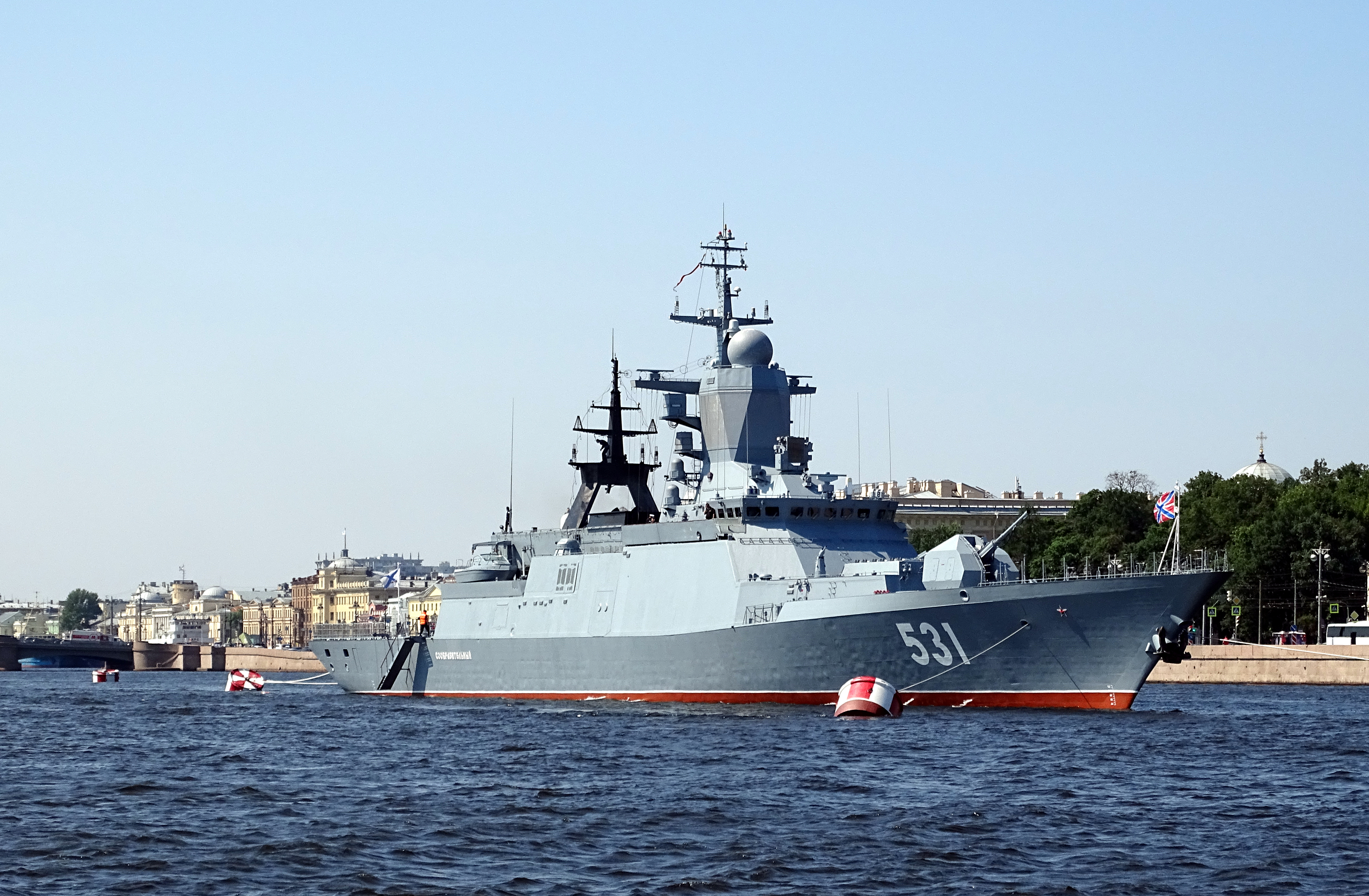 The corvette Soobrazitelnyy of the Russian Baltic Fleet anchored at Saint Petersburg